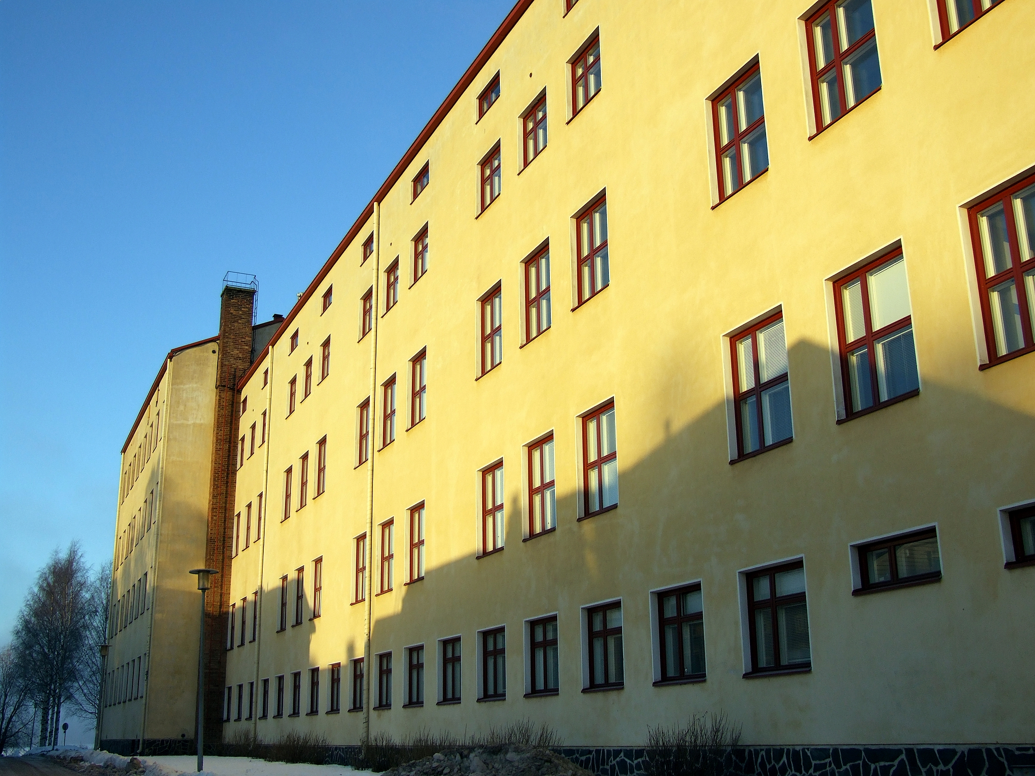 University of Oulu Early Childhood Education Center. The building has been completed in 1956 and it was designed by architect Martti Heikura.